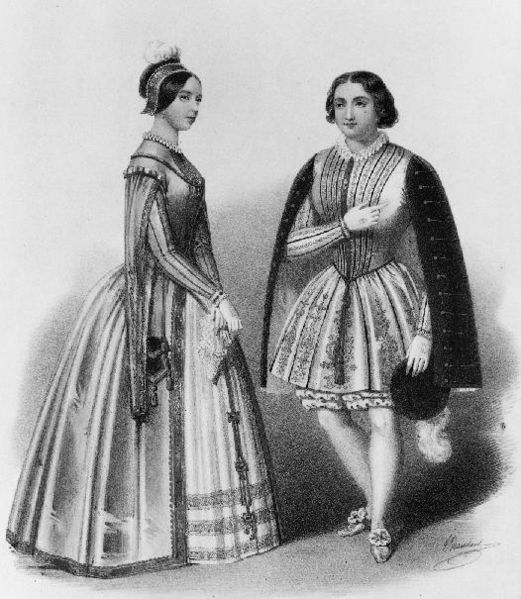 Pauline Viardot as Valentine (left) and Marietta Alboni as Urbain in Meyerbeer's Les Huguenots, Act 1 scene ix (Covent Garden, 1848), lithograph by John Brandard